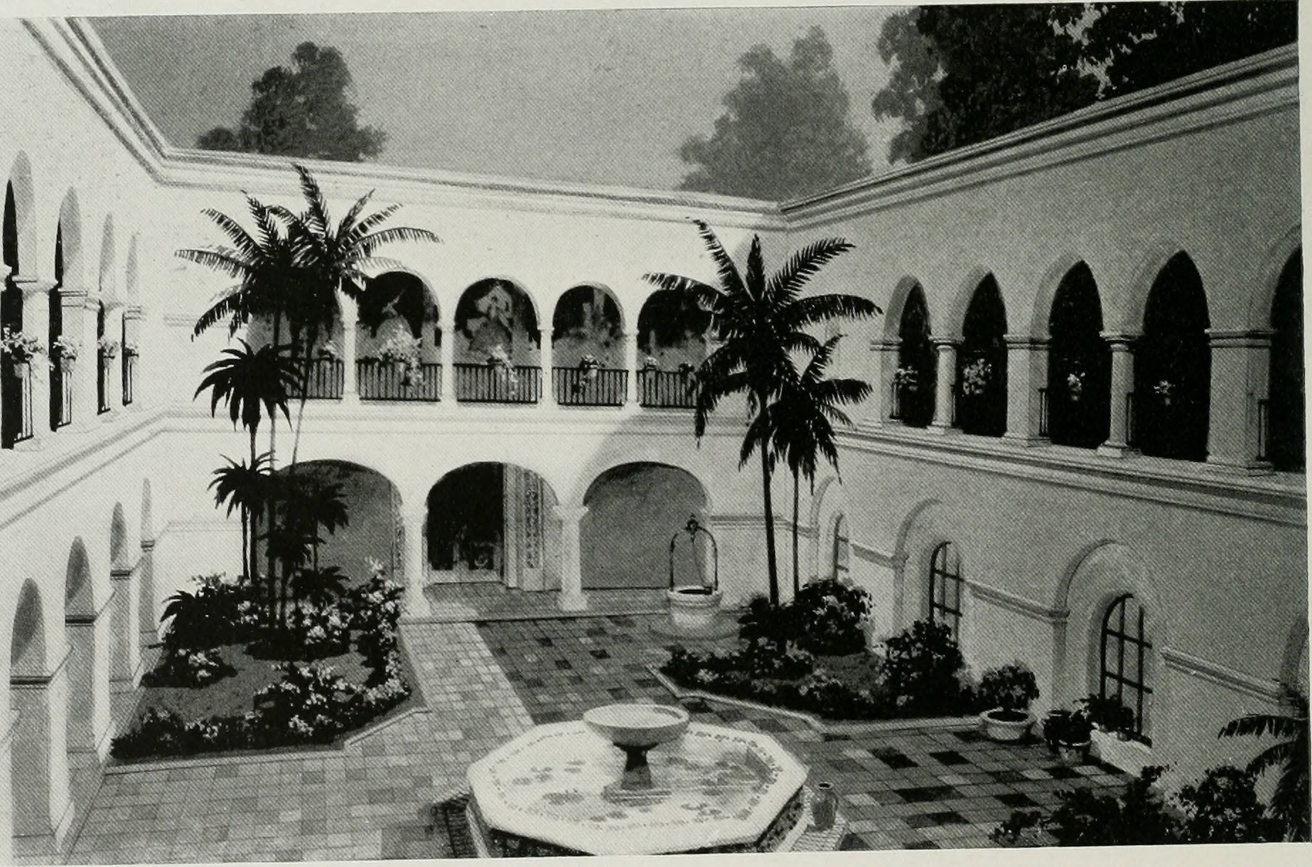 Patio, House of Hospitality, California Pacific International Exposition, San Diego: A replica of the famous convent patio at Guadalajara, Mexico Title: Architect and engineer Year: 1905 (1900s) Authors: Subjects: Architecture Architecture Architecture Building Publisher: San Francisco : Architect and Engineer, Inc Text Appearing Before Image: HOUSE OF HOSPITALITY, CALIFORNIA PACIFIC INTERNATIONALEXPOSITION, SAN DIEGO Text Appearing After Image: l-ATIO HOUSE OF HOSPITALITY, CALIFORNIA PACIFIC INTERNATIONAL EXPOSITION, SAN DIEGO A Replica of the famous convent patio at Guadalajara, Mexico ; ARCHITECT AND ENGINEER ^ 12 ^ MARCH, NINETEEN THIRTY-FIVE other portion of the globe. In the SpanishVillage and the Court of Pacific Relations,a transitional type of architecture is exem-plified, between the prehistoric and the pre-tentious styles which were produced in theopulent period of Spanish occupation in theAmericas. In their proportions and treat-ment, they are no less interesting than theflorid work which followed. They are in special mention should be given to the beau-tiful Casa dela Rey Moro Garden—repro-duced as faithfully as possible—the finestsmall garden in all Spain, with its alabasterfountain, grotto, lily pond, quaint old well,seats and pergolas. Next in importance isthe Alcazar Garden, planned from a sectionof the extensive and beautiful gardens sur-rounding the Alcazar in Seville. The Al